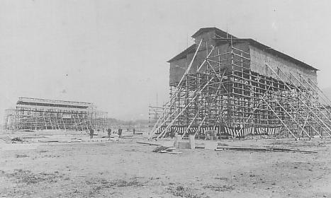 Heian Jingu under construction